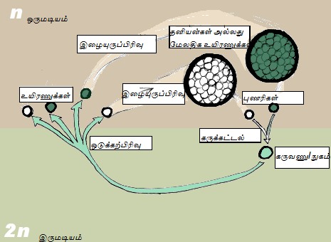 Original image is File:Zygotic meiosis.png from Wikimedia commons